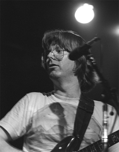 Phil Lesh performing with Tooloos (Terry Haggerty, John Allair, Steve Mitchell) at the Keystone Berkeley; 12/19/76